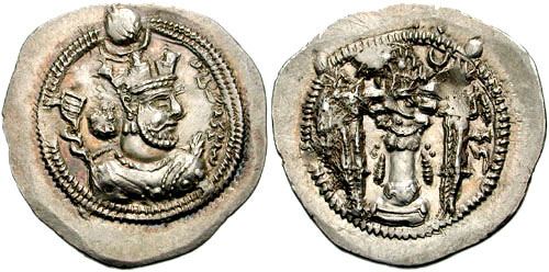 Coin of Balash, Sasanian king